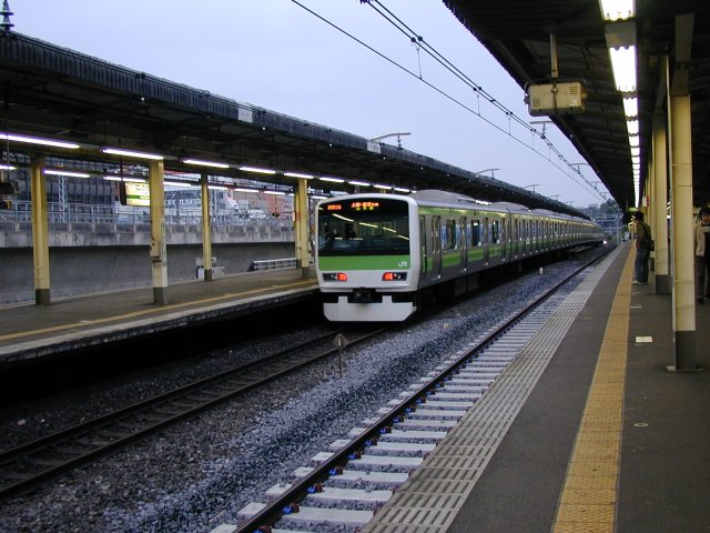 Nishi-Nippori Station, Tokyo, Japan